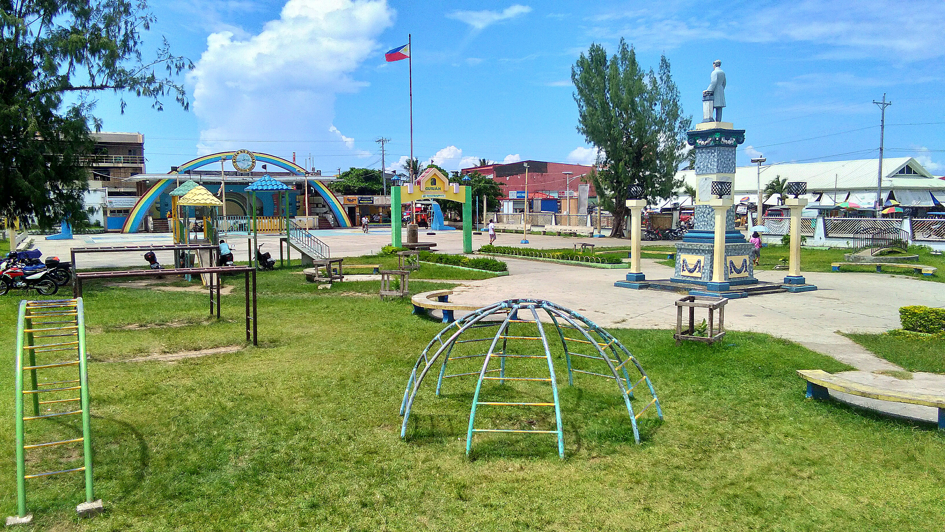 Guiuan Town Plaza in 2019